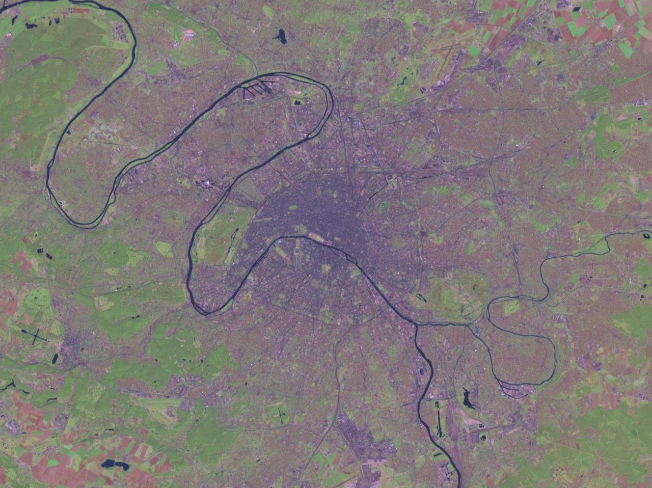 Paris, France. Satellite view.